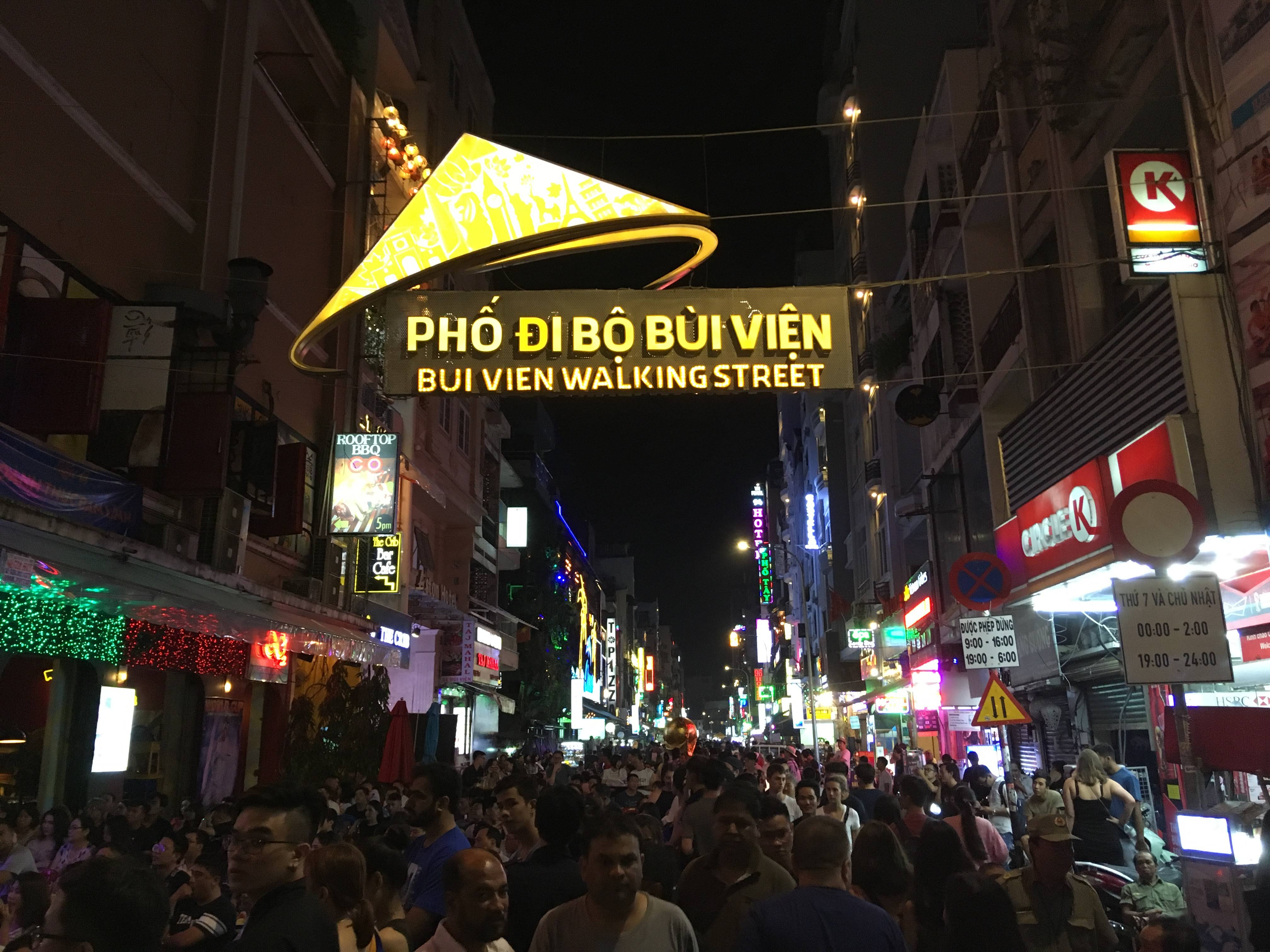 Bui Vien Walking Street in the evening in Ho Chi Minh City.